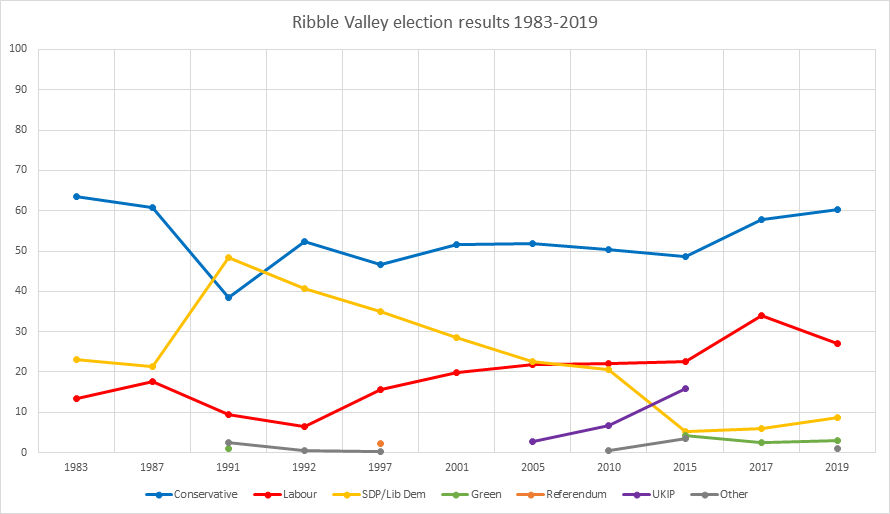 Election graph for Ribble Valley constituency